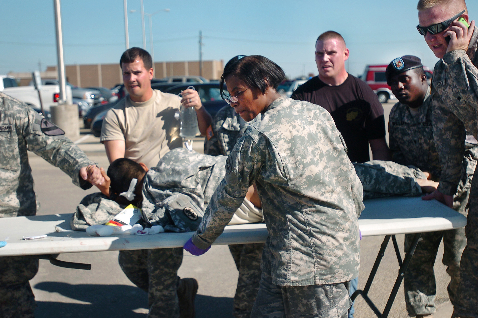 Fort Hood shooting: First responders use a table as a stretcher to transport a wounded US Soldier to an awaiting ambulance at Fort Hood, Texas, Nov. 5.